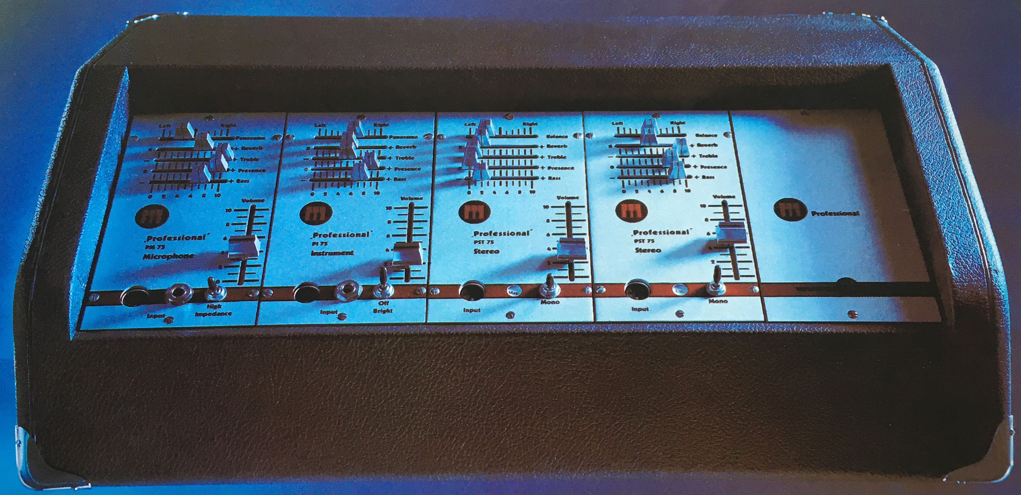 WERSI Mixer